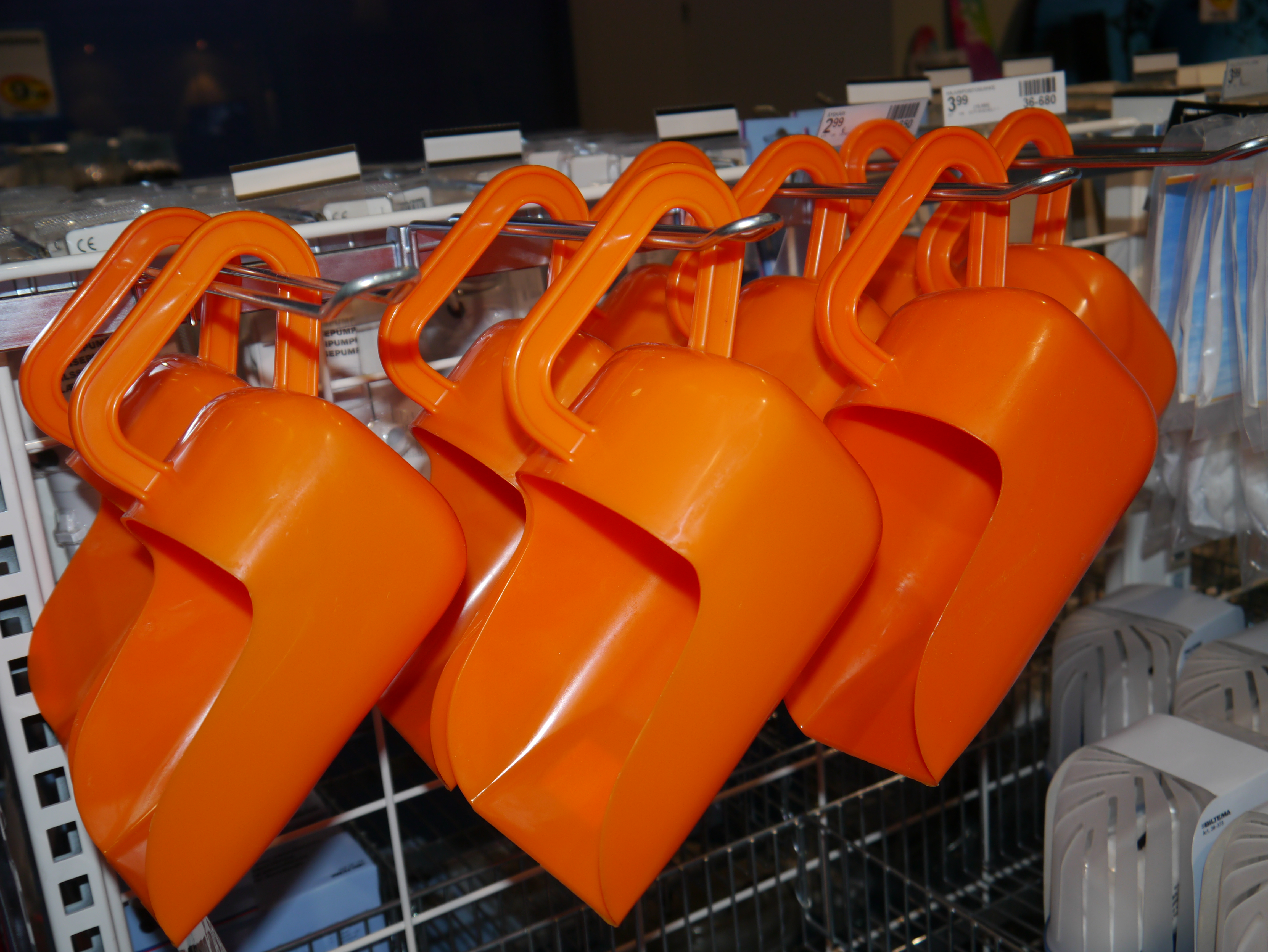 Plastic bailers for bailing (ladling) water out of boats.